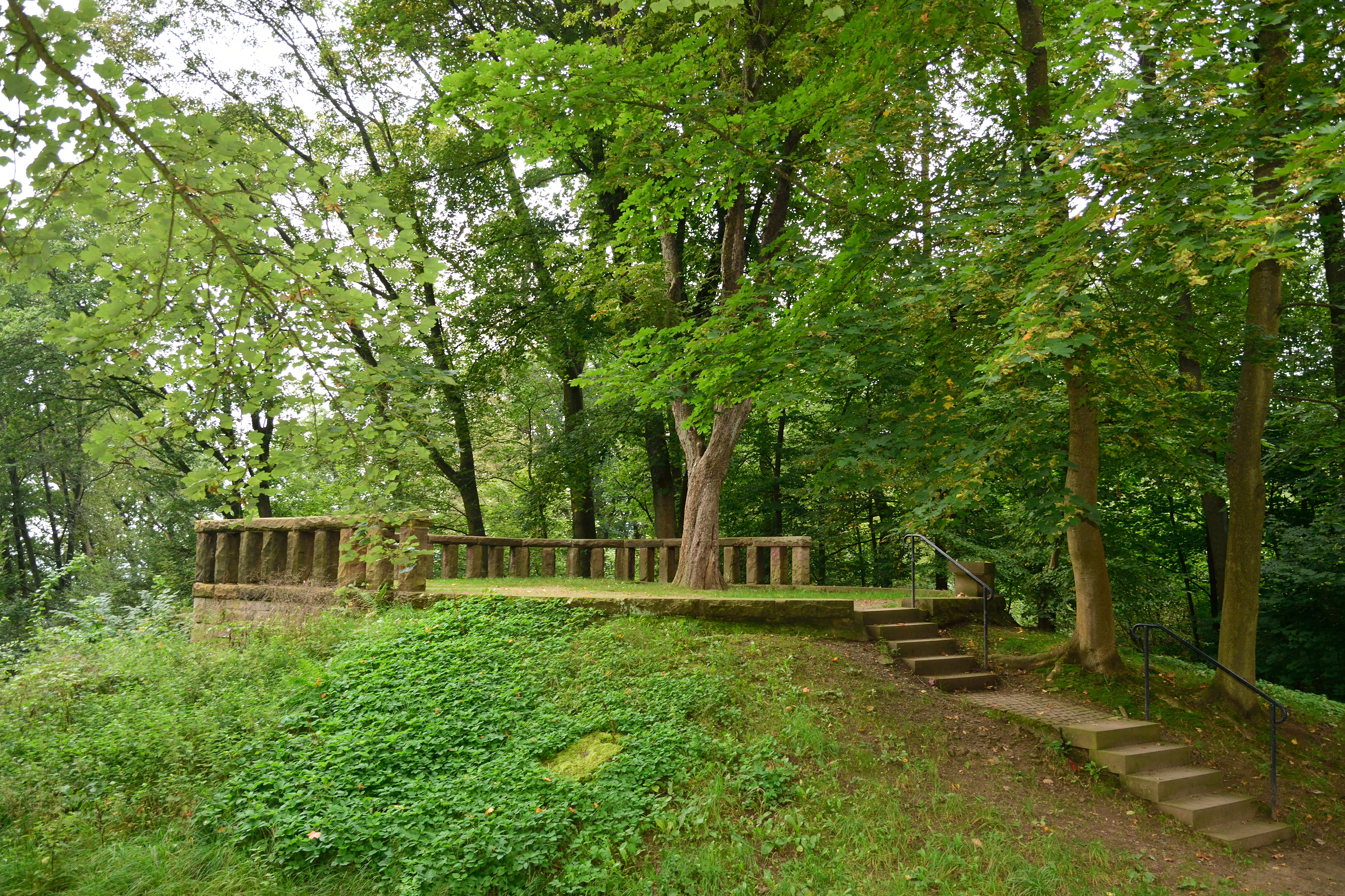 Former execution site "Rabenstein" in Marburg. The last execution was carried out in 1864.